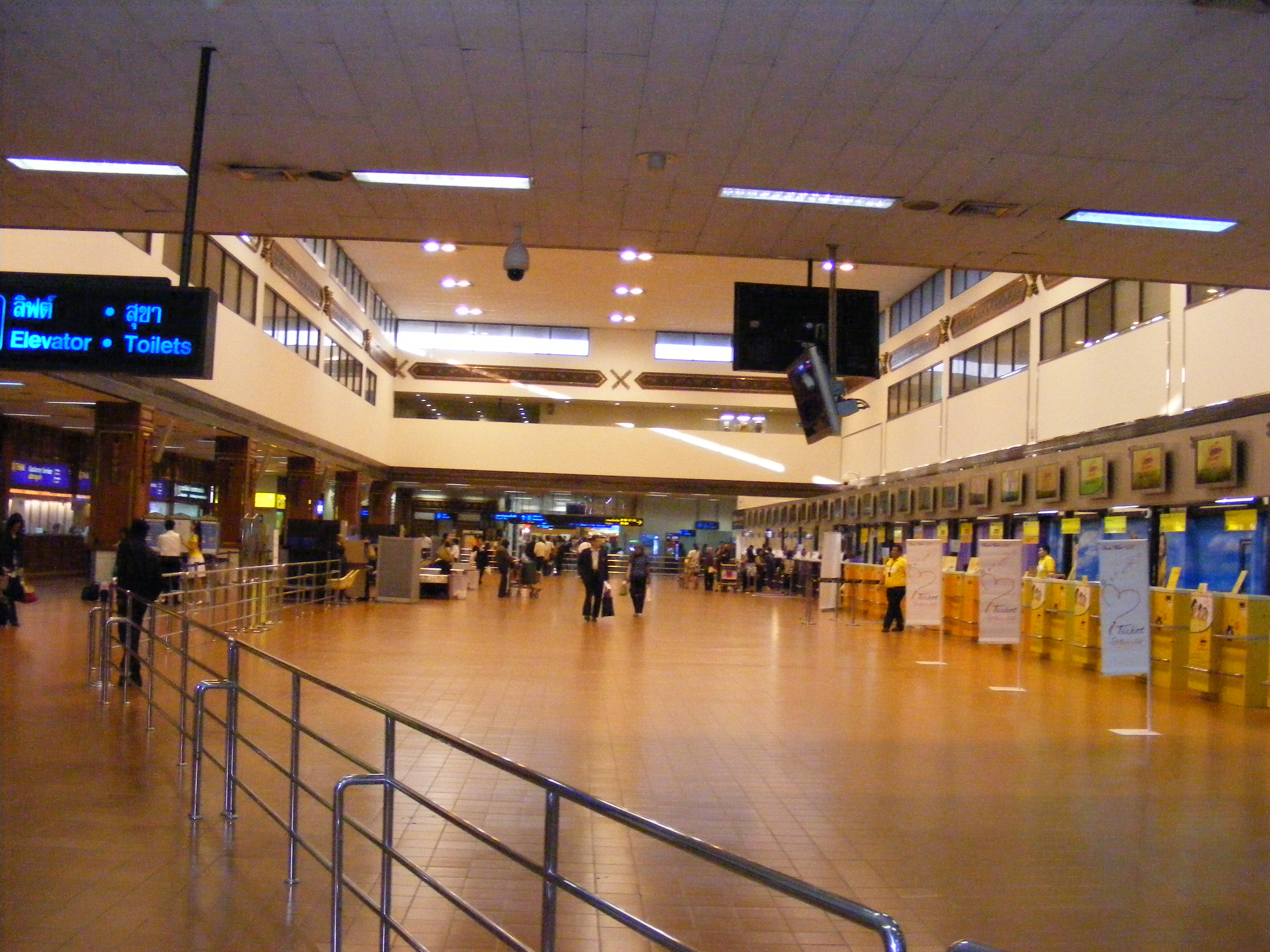 Don Mueang Airport near Bangkok, Thailand - Domestic terminal - Check-in area, note the Nok Air and One-Two-GO Airlines counters at the right.